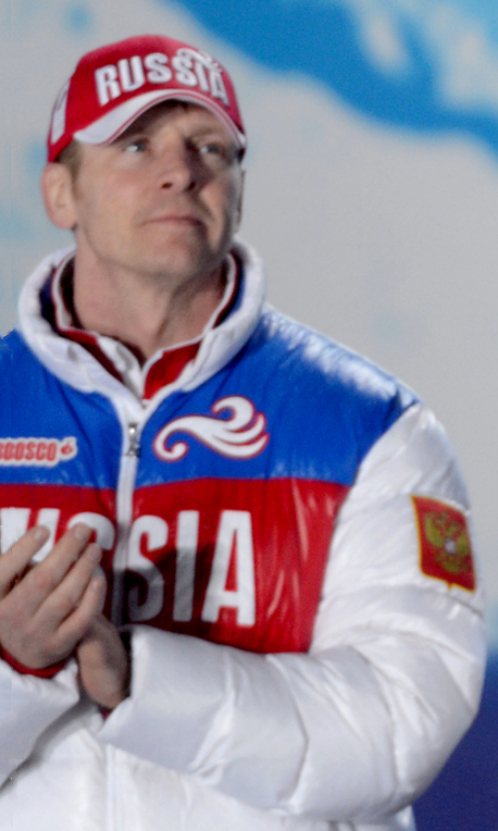 Former U.S. Army World Class Athlete Program bobsledder Steven Holcomb of Park City, Utah, and Steve Langton of Melrose, Mass., hoist the flowers and display their bronze medals during the Olympic two-man bobsled medal ceremony Feb. 18 at Olympic Park in Sochi, Russia. The Russian on the left is Alexander Zubkov, who drove Russia-1 to the gold medal with Alexey Voevoda aboard. (U.S. Army photo by Tim Hipps)